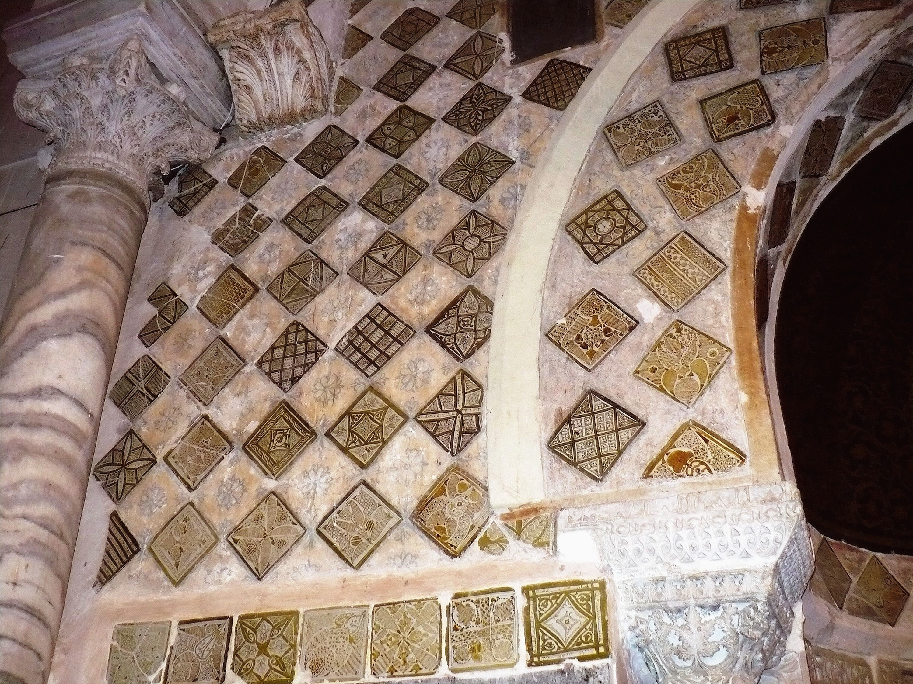 View of the luster tiles, ornating the mihrab and its wall, in the Great Mosque of Kairouan, in Tunisia.